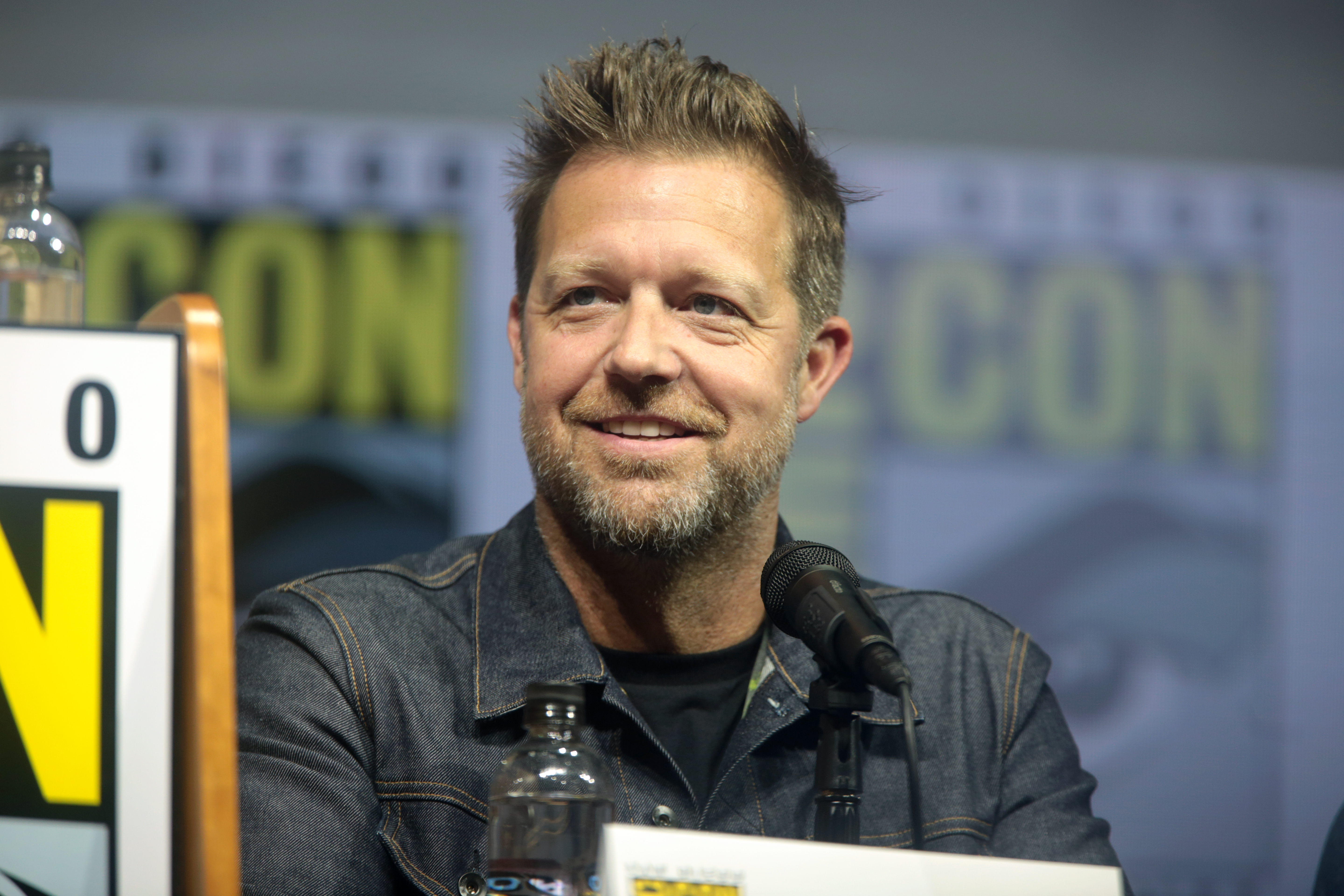 David Leitch speaking at the 2018 San Diego Comic Con International, for "Deadpool 2", at the San Diego Convention Center in San Diego, California.